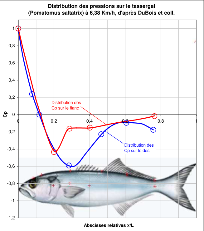 Distribution of pressures on bluefish according to DuBois et al. These Cp were measured on live fish. See the text: PRESSURE DISTRIBUTION ON THE BODY SURFACE OF SWIMMING FISH, by ARTHUR B. DUBOIS, GIOVANNI A. CAVAGNA, AND RICHARD S. FOX, J. Exp. Biol., 1974, 60, 581-591 [2]